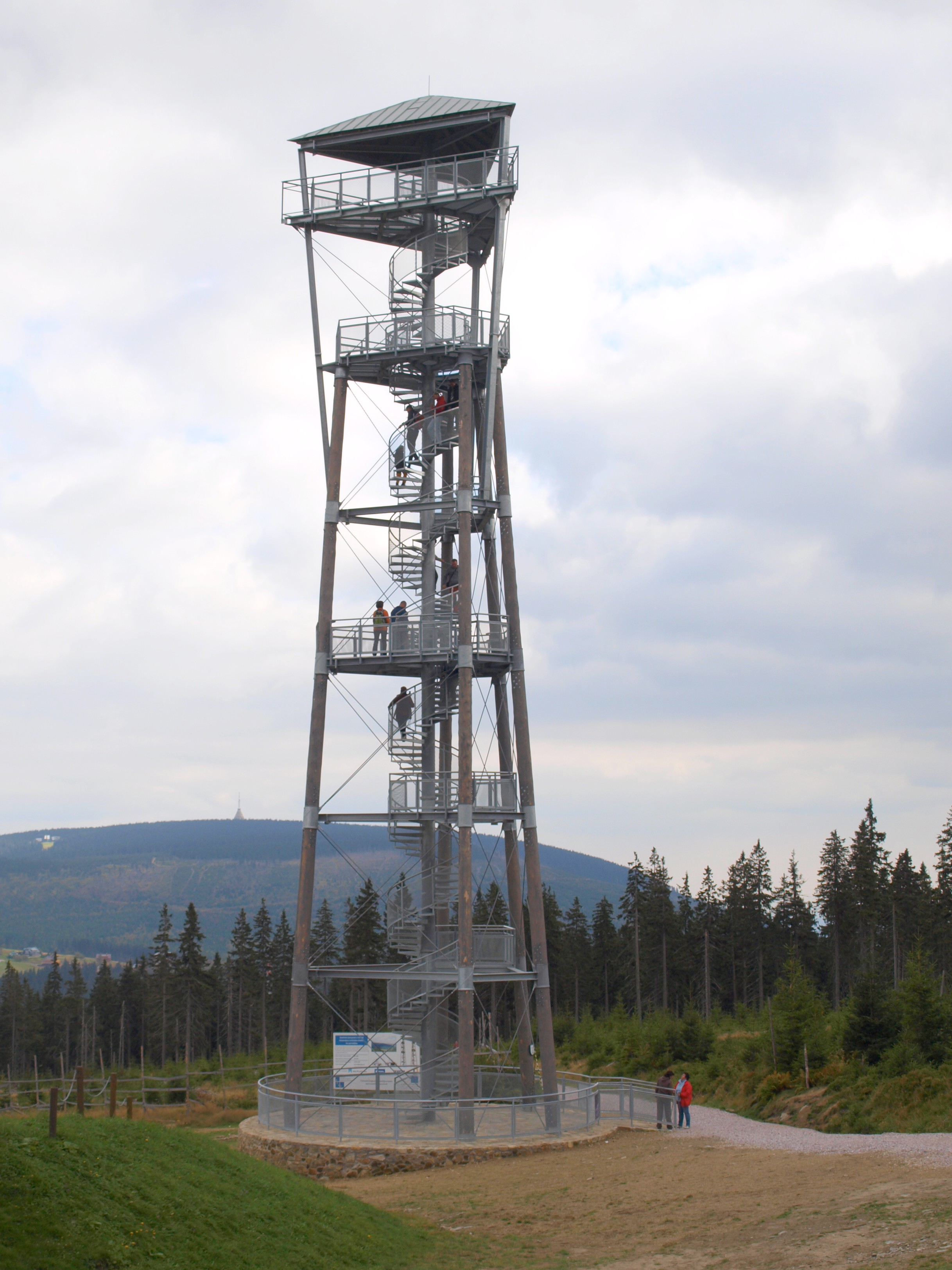 Watchtower Hnědý vrch, Krkonoše